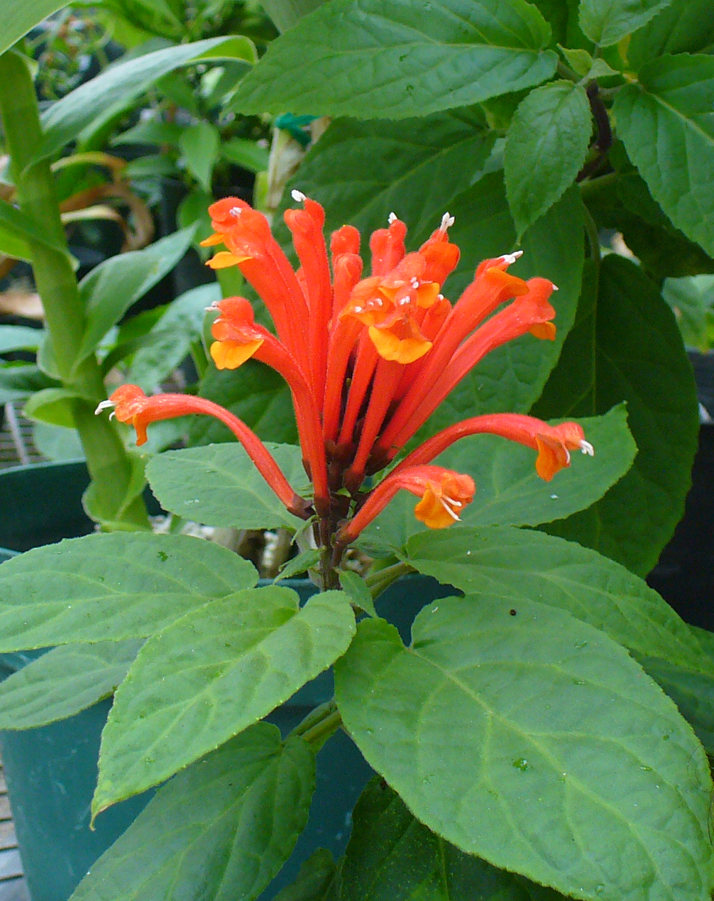 Greenhouse, Florida International University, Miami, Florida, USA